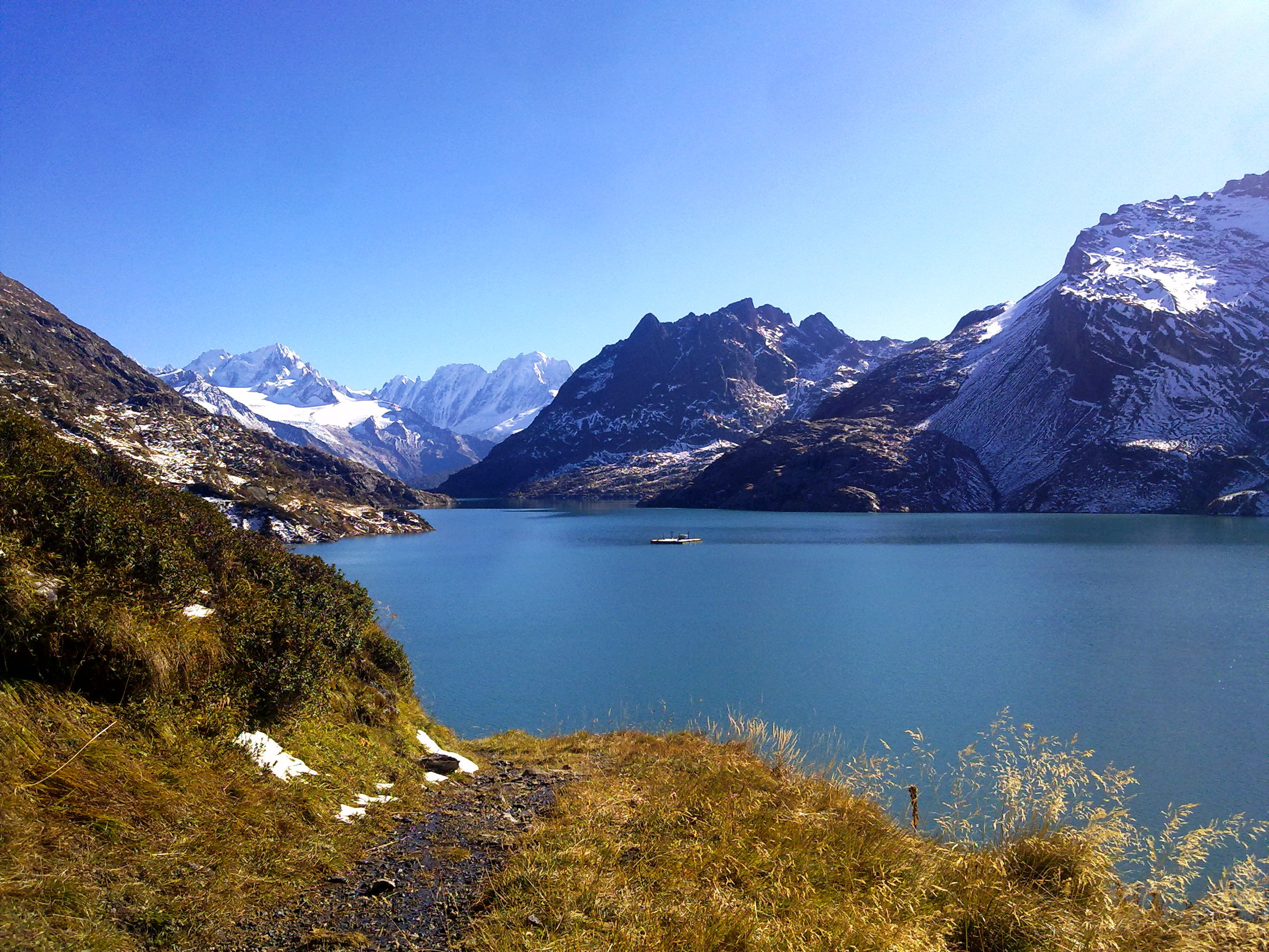 The lake of Emosson, view from the east shore